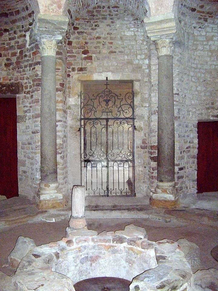 Baptistery of Frejus Cathedral, France (5th century).